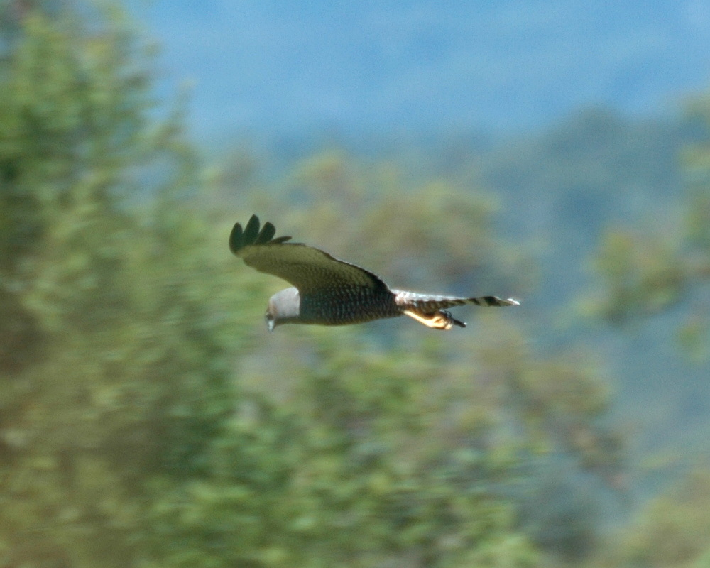 Spotted Harrier (Circus assimilis) Samsonvale, SE Queensland, Australia